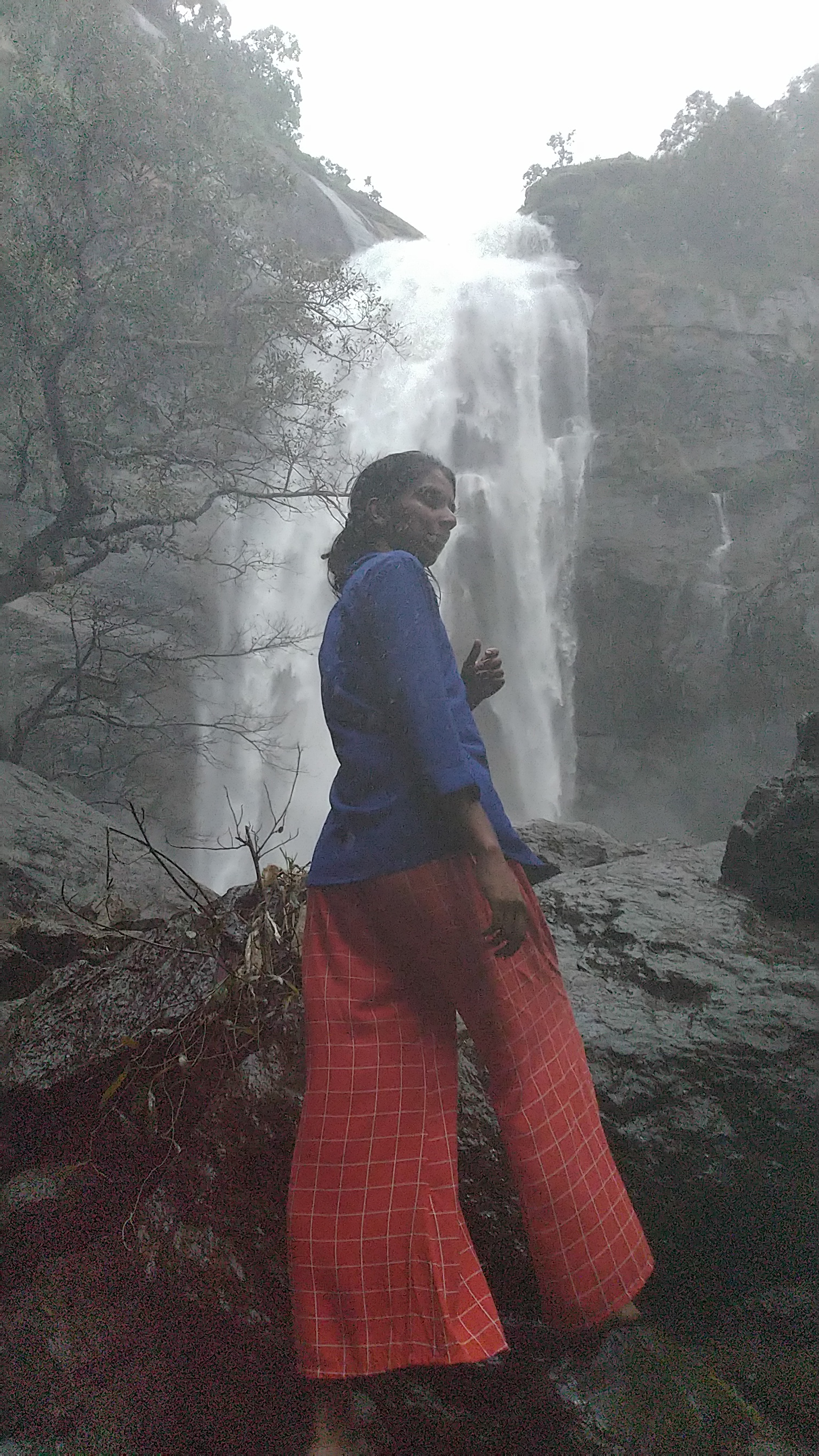 Tourist at Agaya Gangai waterfalls, Kolli Hills